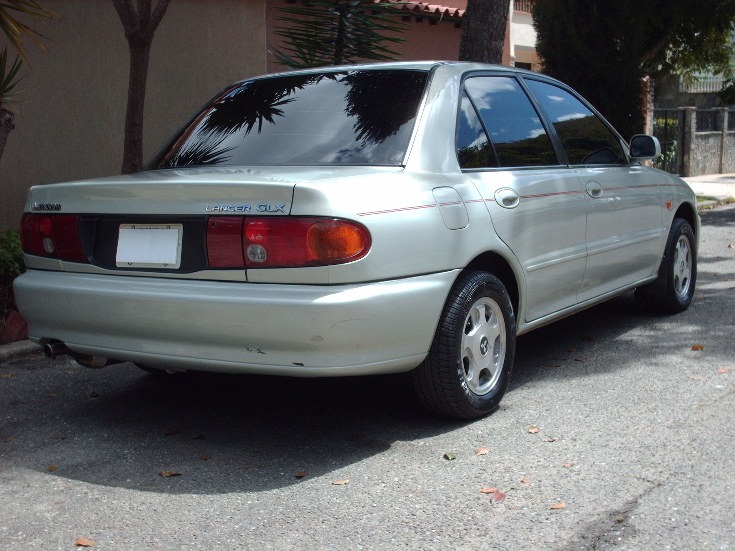 Mitsubishi Lancer GLX rear view 001